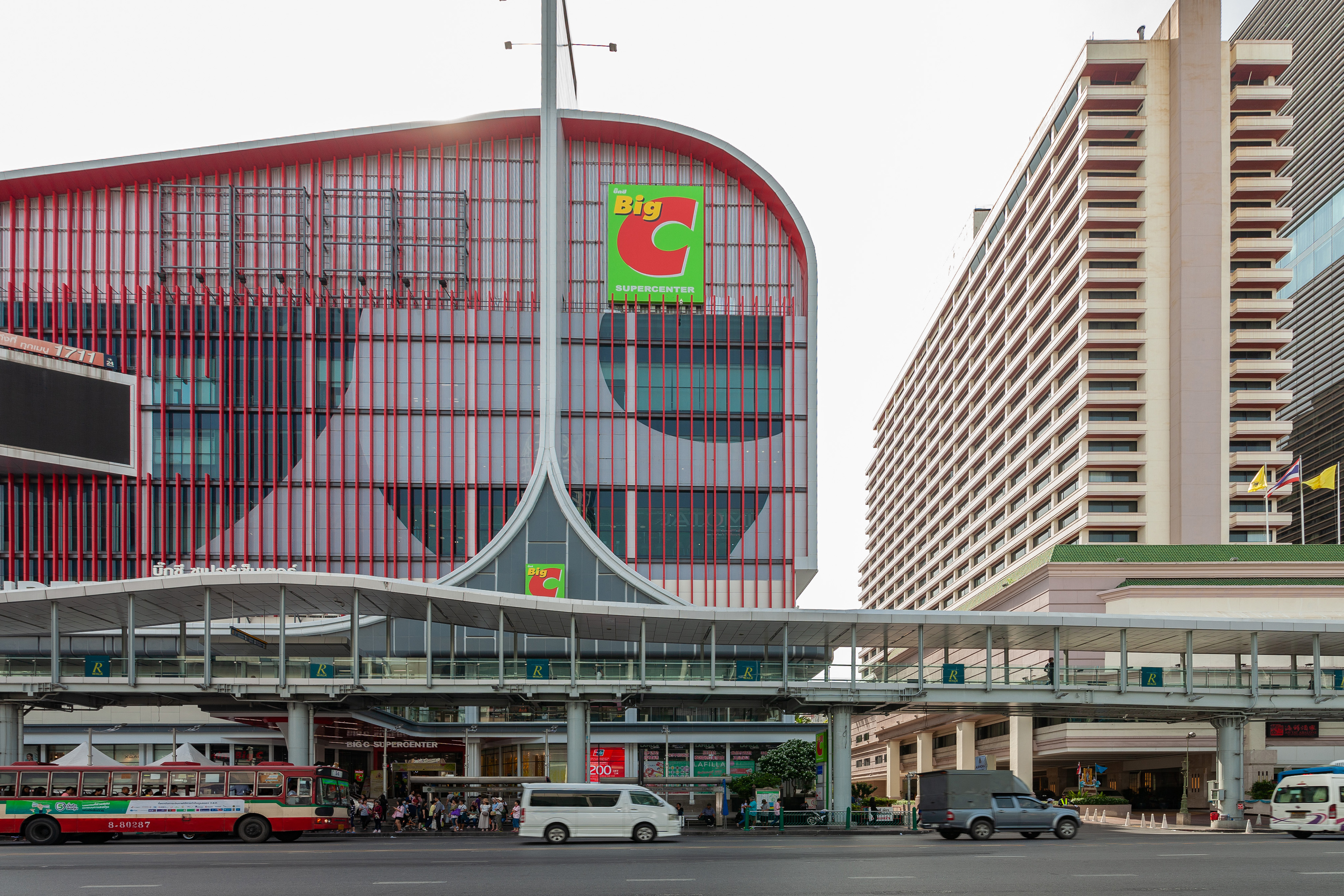 Big C Ratchadamri is a supermarket located at 97/11 Rajdamri Rd. in the Pathum Wan district of Bangkok.